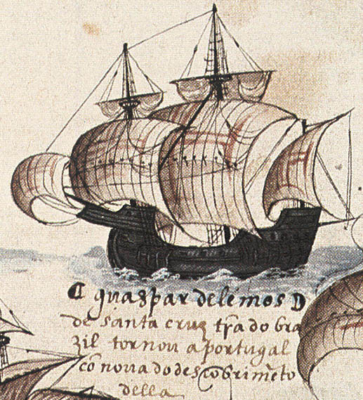 Memory of naval force that came from Portugal to India. Detail of the ship (carrack) of Gaspar de Lemos.